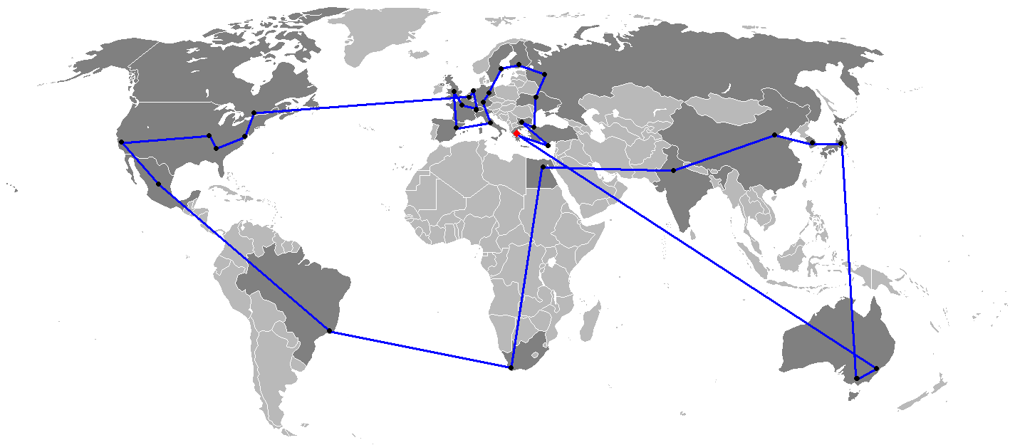 Route of the 2004 Olympic Torch Relay.